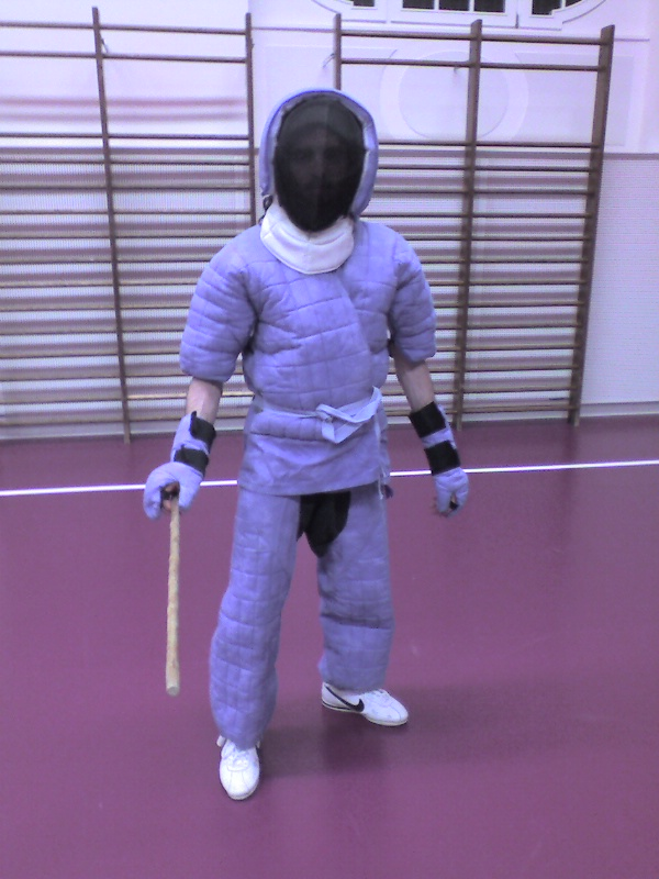 Complete equipment for canne de combat.